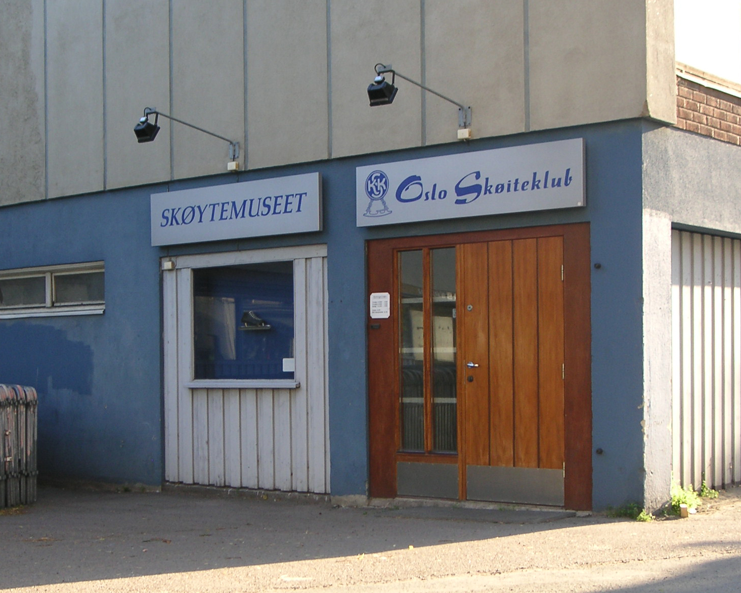 The Norwegian icescating museum